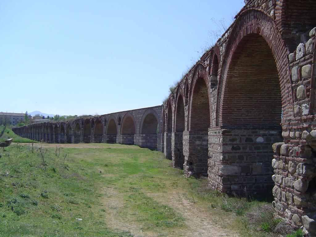 The old aqueduct in the north of Skopje